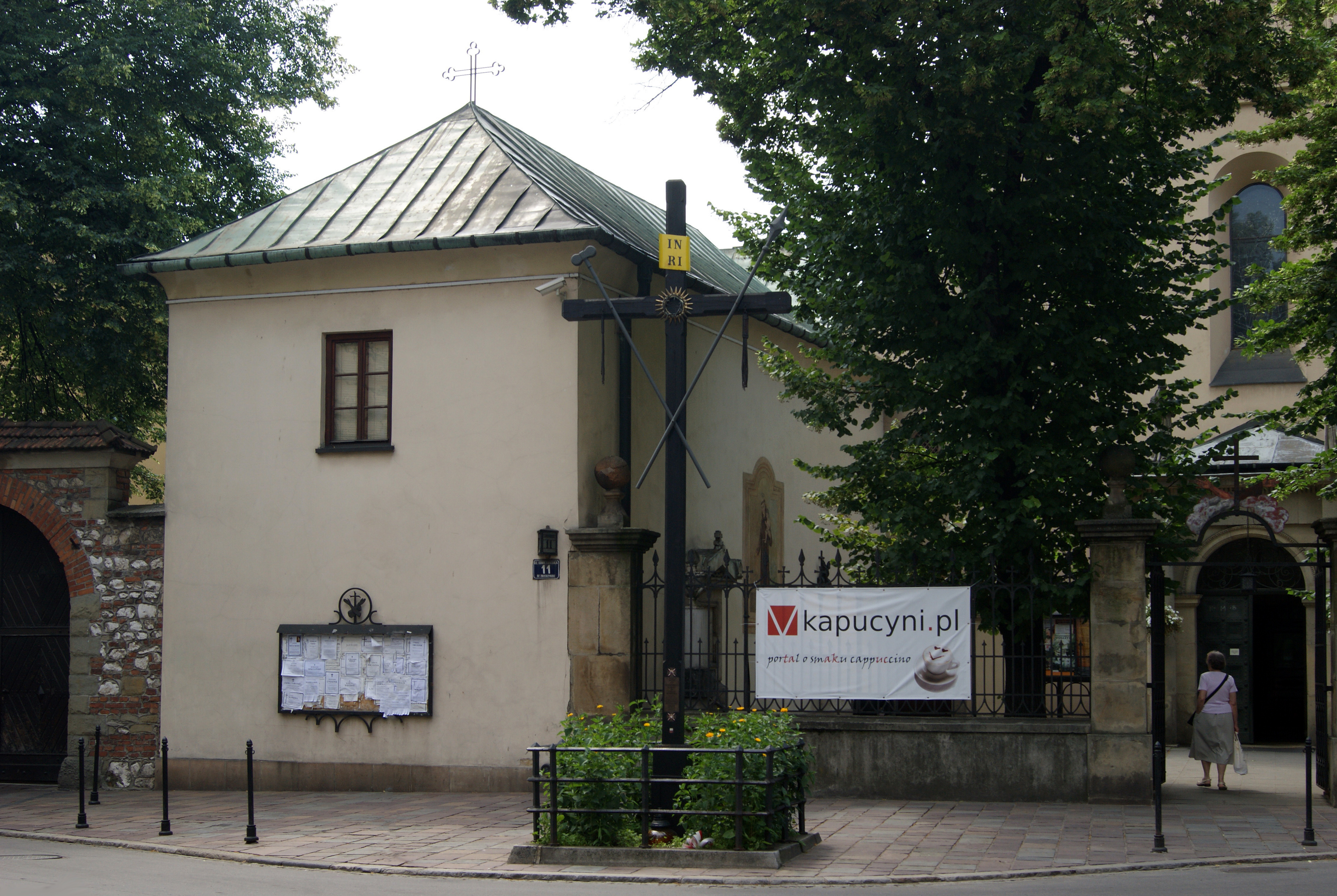 Grave of Bar Confederation's soldiers, 11 Loretanska street, Krakow, Poland